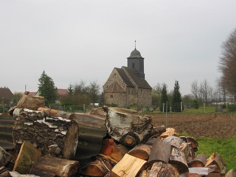 Stonechurch in the municipality Stackelitz, built probably in the 13th century. Stackelitz is situated in the nature park Fläming and belongs to the district Anhalt-Zerbst, state Saxony-Anhalt, Germany.